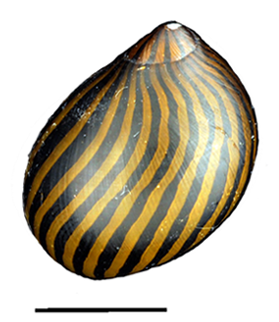 Photo of an abapertural view of a shell of Neritina turrita, synonym: Vittina turrita. Scale bar is 10 mm.